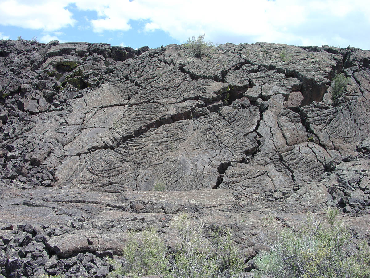 Hot, fluid lava is responsible for the formation of the ropey texture on the surface of this pahoehoe lava flow in El Malpais National Monument.